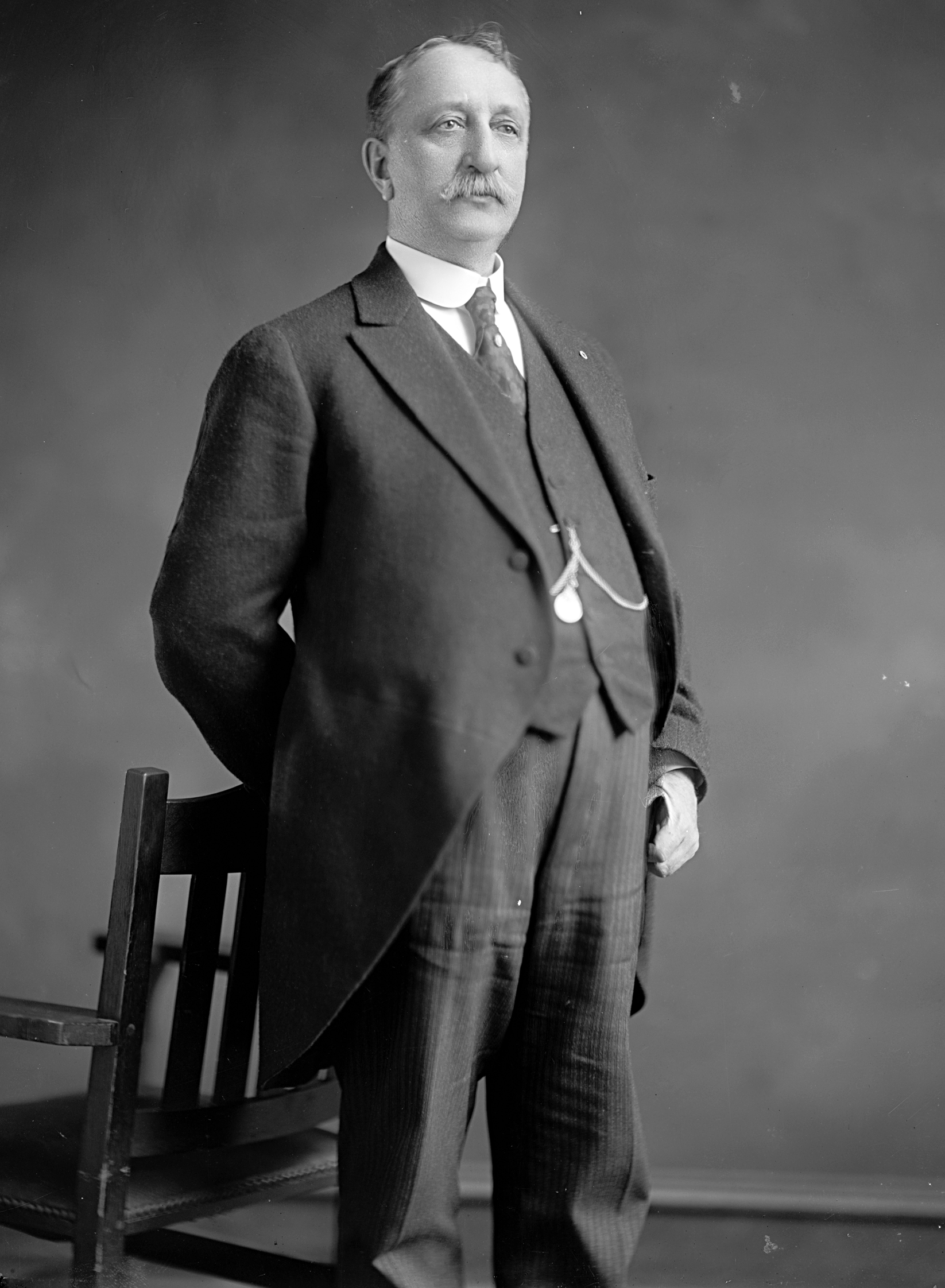 Arthur Granville Dewalt, US Representative from Pennsylvania